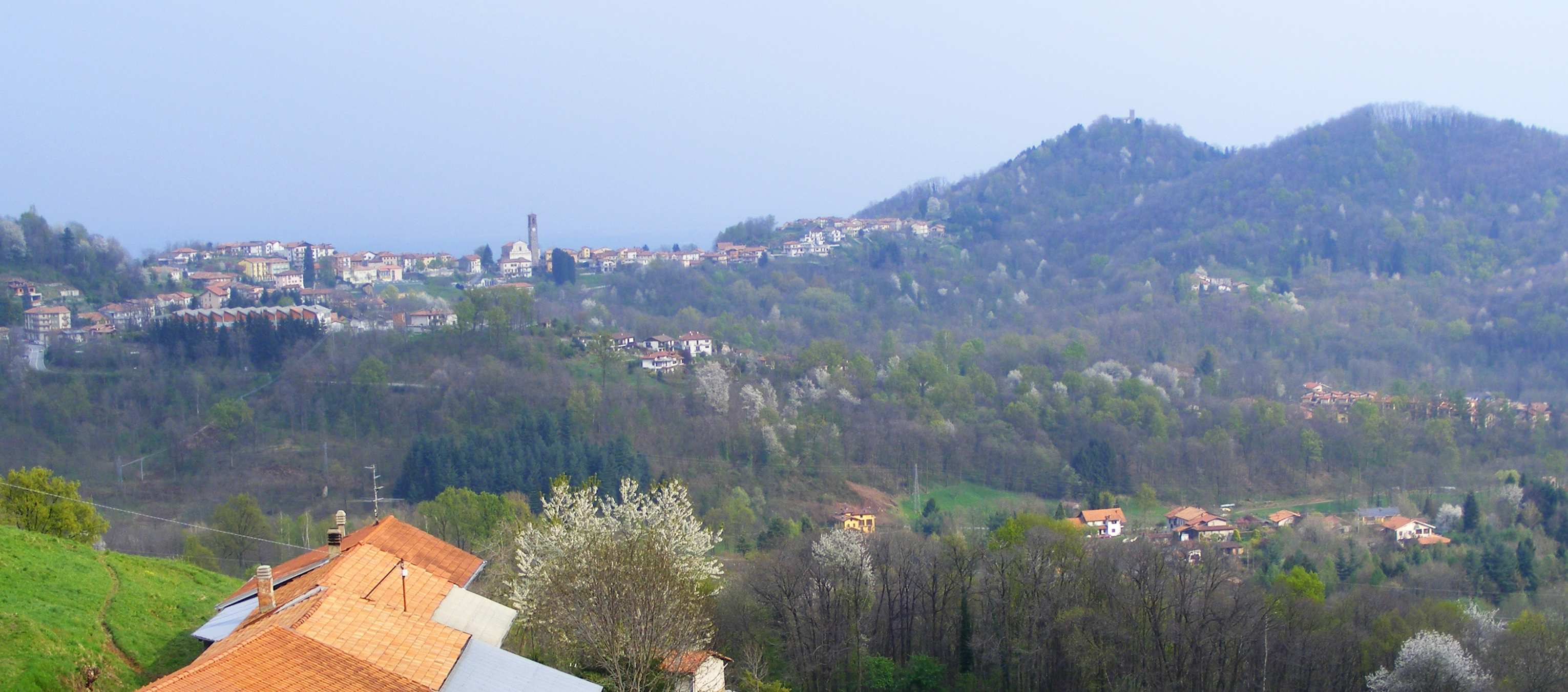 Zumaglia (BI) from Colma di Biella